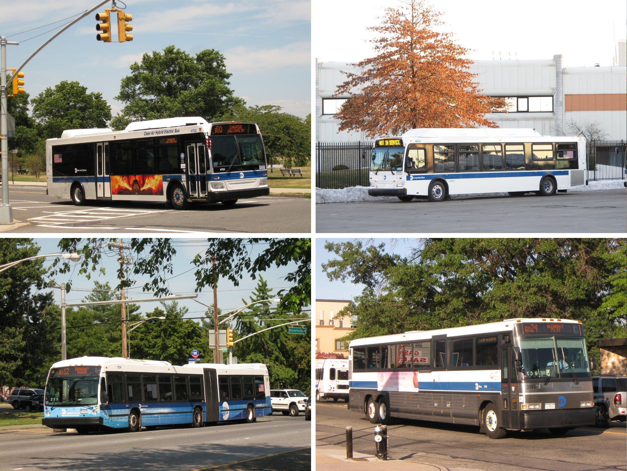 Pictures of the Metropolitan Transportation Authority (New York)'s bus operations under Regional Bus Operations (RBO). All four brands are represented. Clockwise from the top left, they are the New York City Bus, Long Island Bus, MTA Bus, and Select Bus Service vehicles in the common liveries.